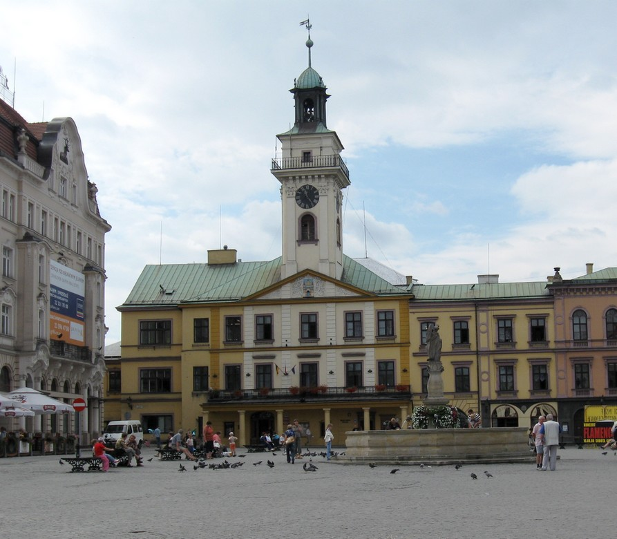 Main square in Cieszyn Česky: Polský Těšín - náměstí